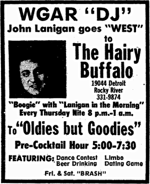 Print ad for radio host John Lanigan appearance at the Hairy Buffalo in Rocky River, Ohio